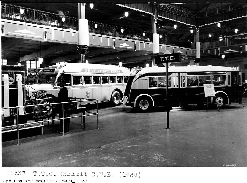 A display of TTC vehicles inside the Automotive Building.